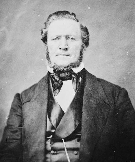 Brigham Young, Copy negative from a Daguerreotype. Part of Brady-Handy Photograph Collection (Library of Congress).